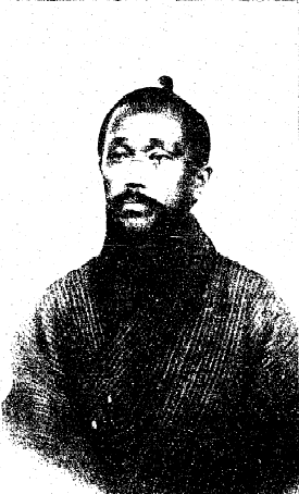 Tomikawa Seikei (1832 - 1890)